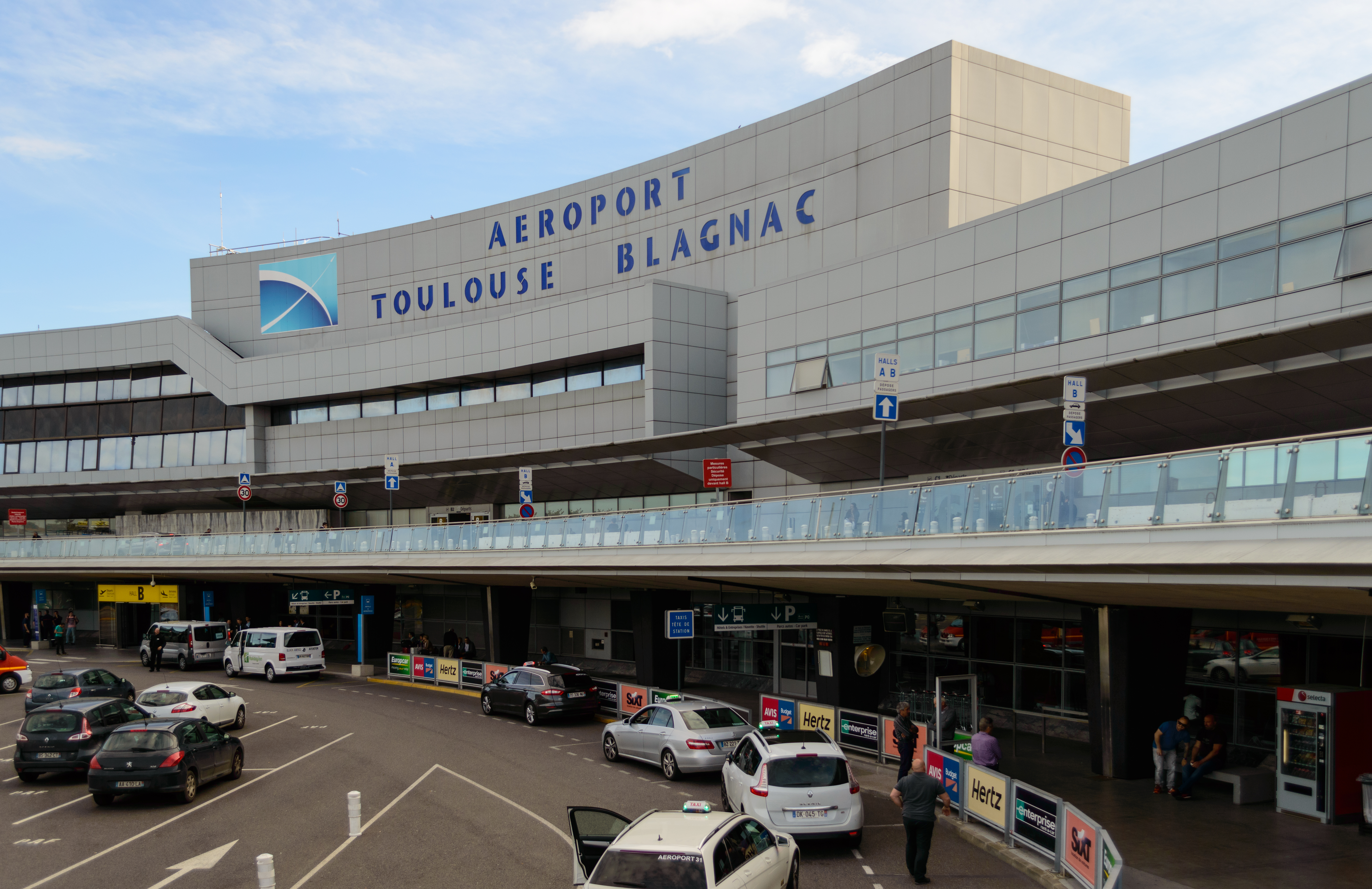 View of the Toulouse-Blagnac airport.